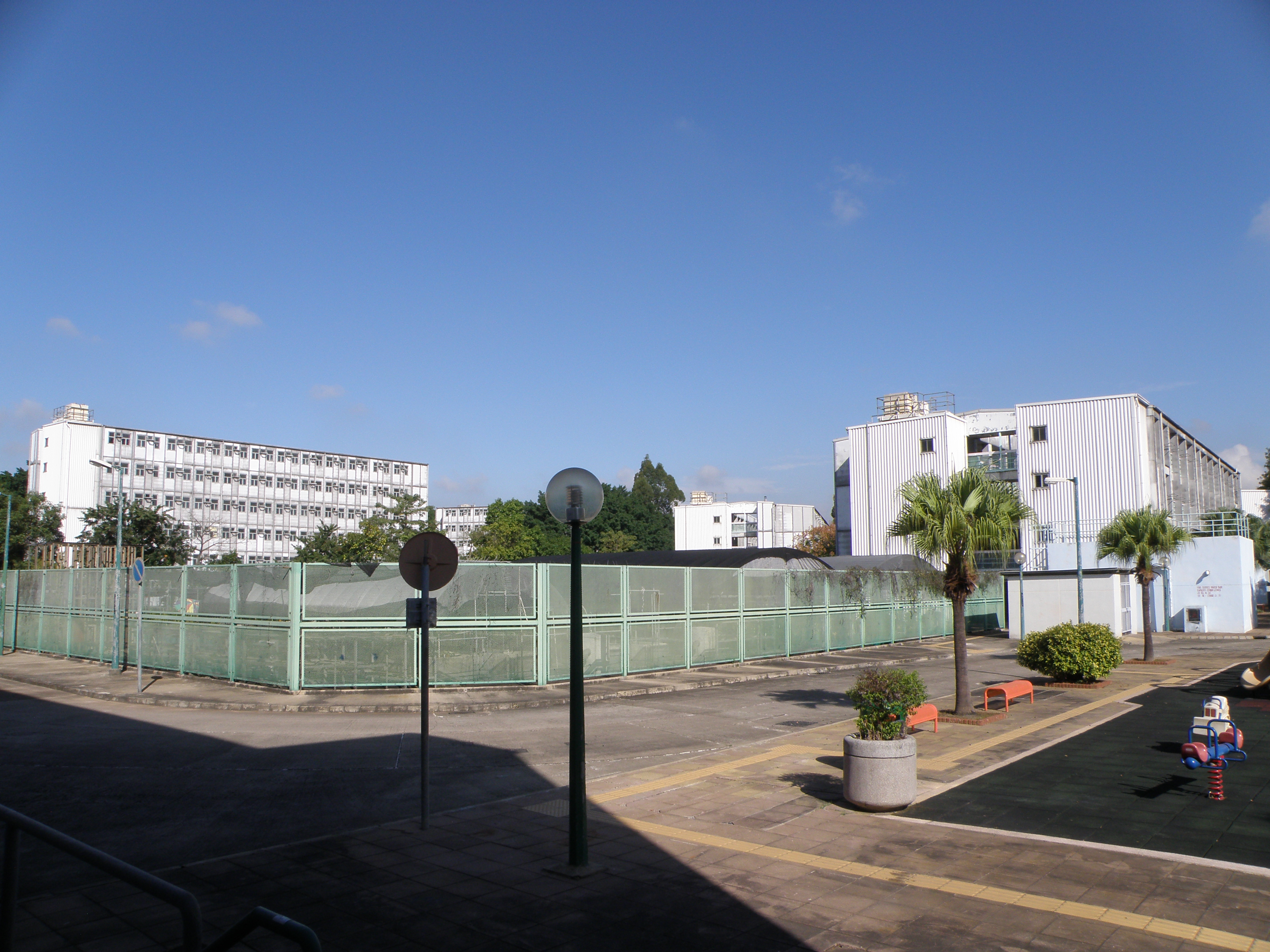 Long Bin Interim Housing in Ping Shan, Hong Kong.